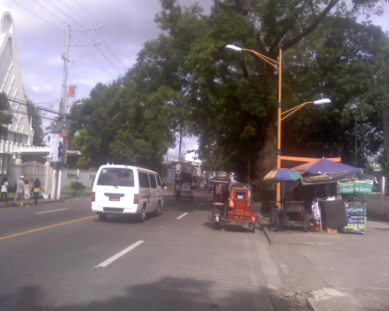 Pedro Guevarra Street, Santa Cruz, Laguna, Philippines